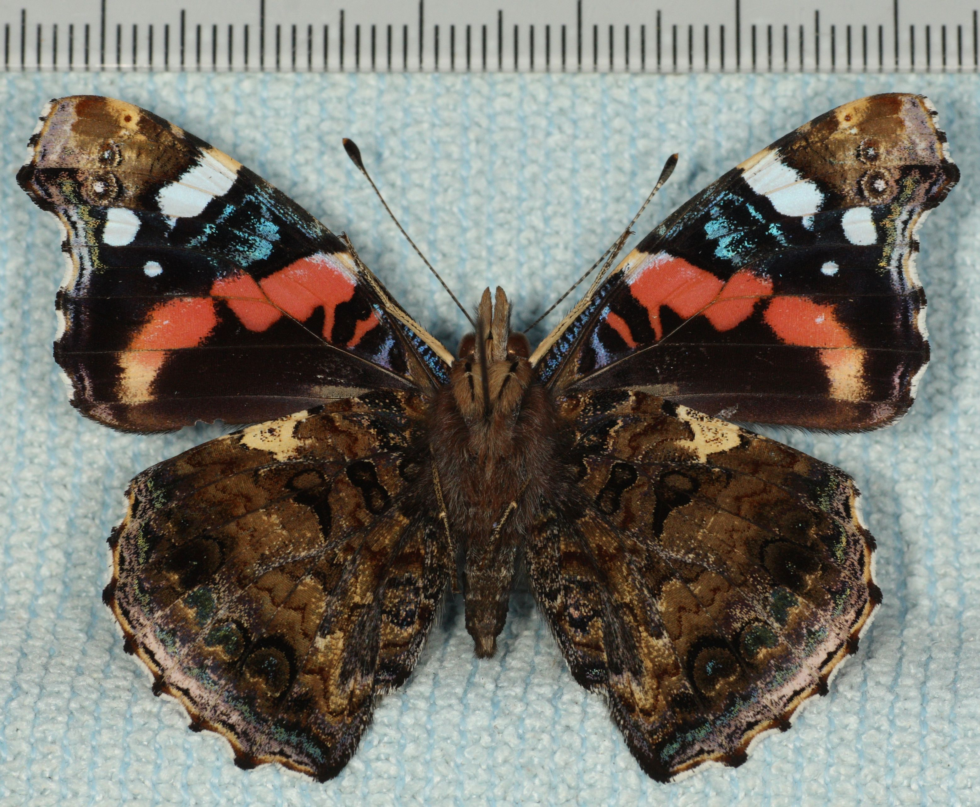 Red Admiral Vanessa atalanta